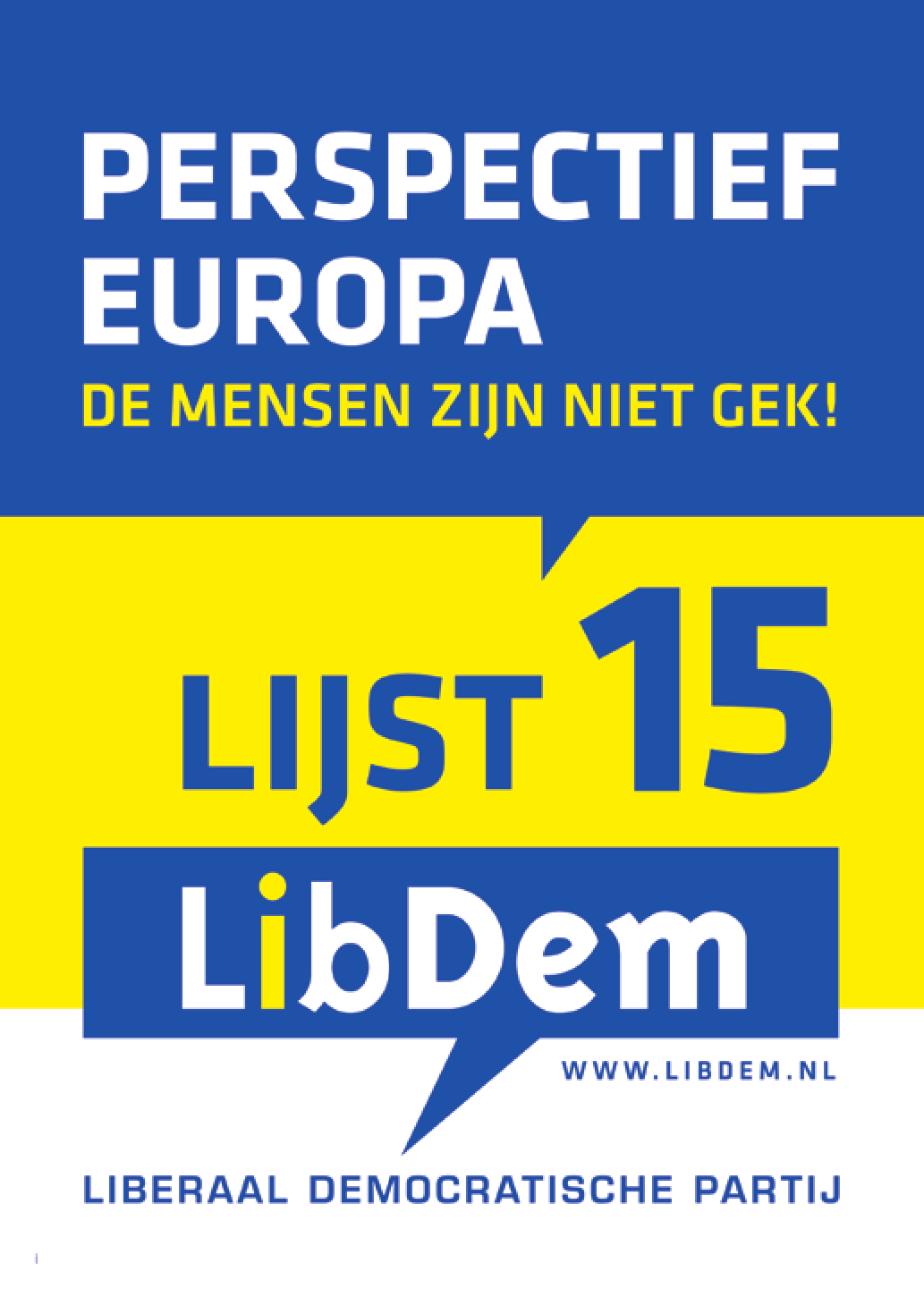 Poster used in the European parliament elections of 2014 in the Netherlands